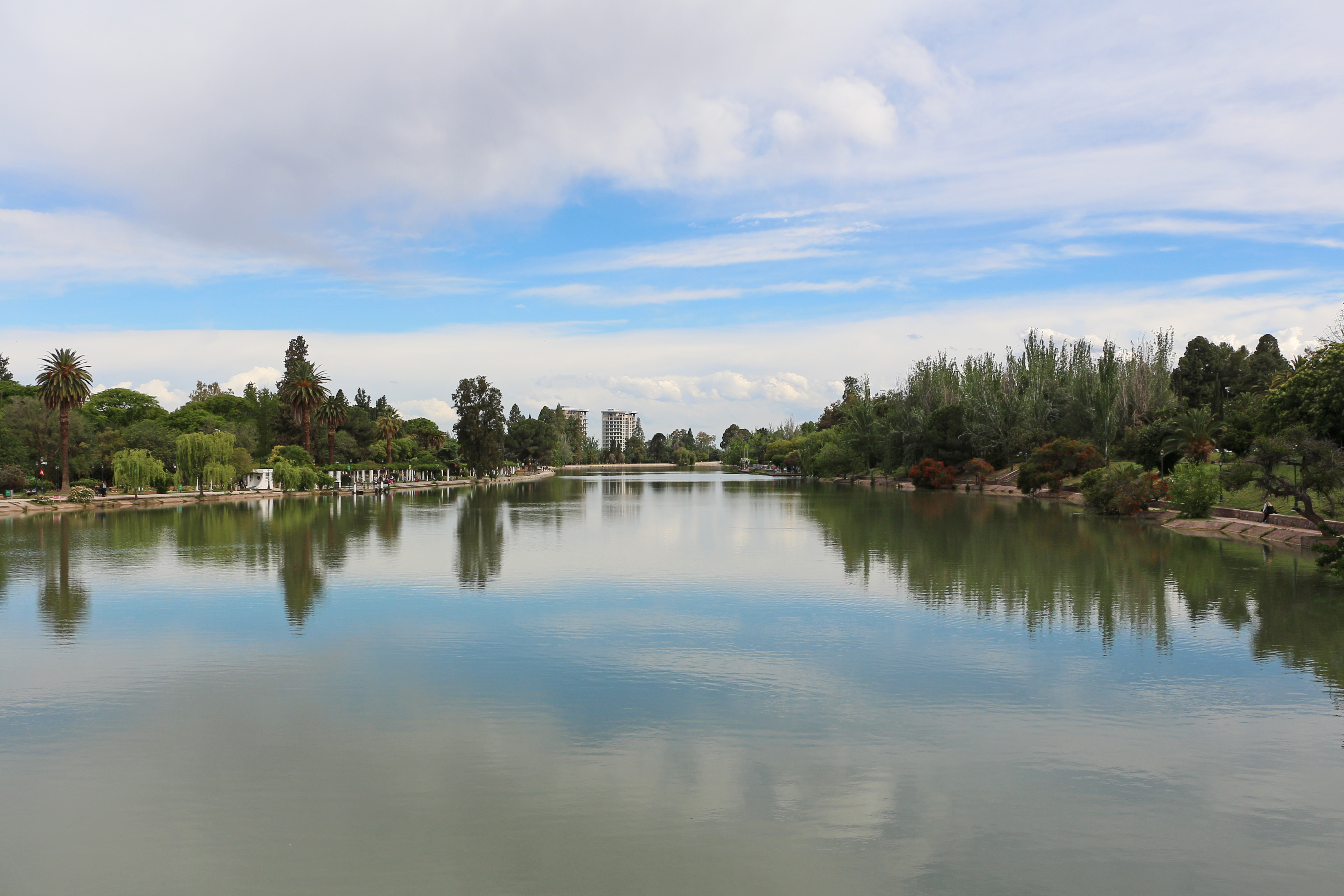 Artificial lake in General San Martín Park, Mendoza, Argentina